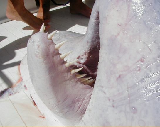 They were attacking and devouring a smaller whale later identified by the head we retrieved as a quite rare Pygmy Sperm Whale.